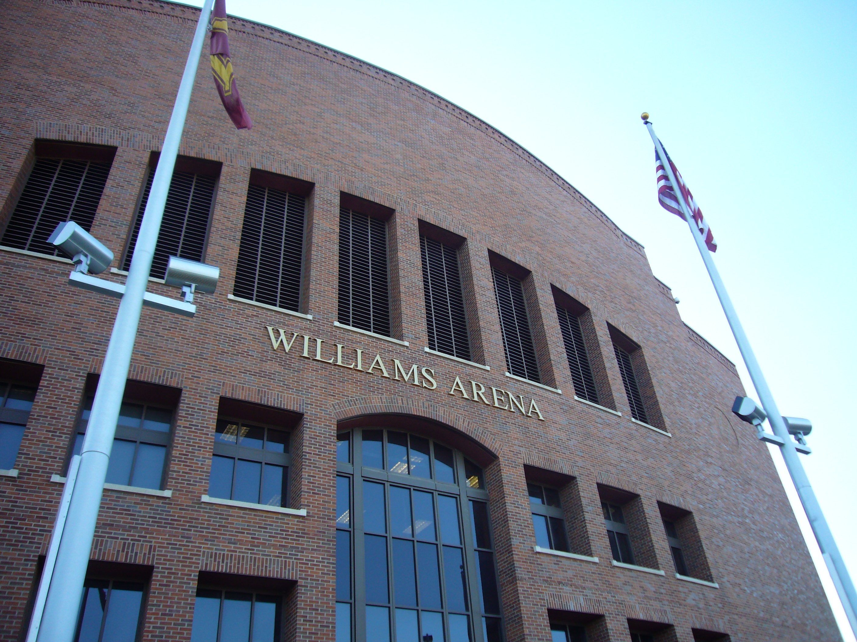 Created by user and released into the public domain.